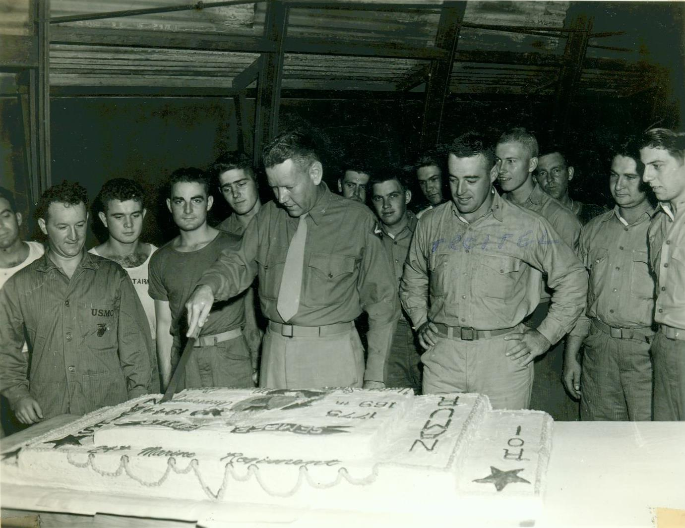 Colonel Walter I. Jordan and members of the 24th Marines celebrate the Marine Corps Birthday in Maui, 1944. From the Austin Brunelli Collection (COLL/19) at the Marine Corps Archives and Special Collections OFFICIAL USMC PHOTOGRAPH